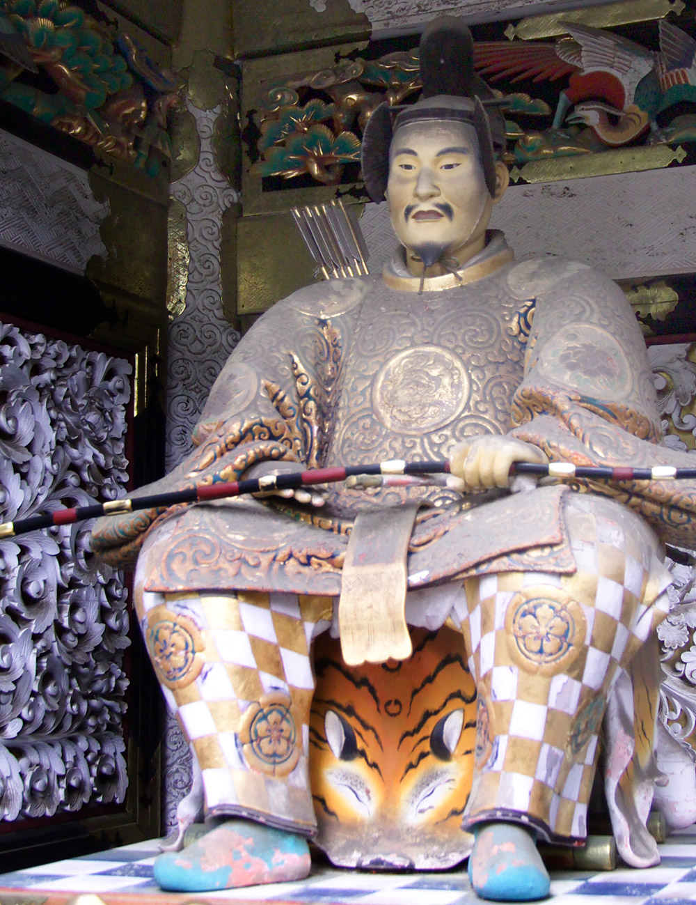 Statue of archer in gate at Toshogu, Nikko, Tochigi Prefecture, Japan, a UNESCO World Heritage Site. I took the photo and contribute it to the public domain. However, people and institutions may retain rights to images in it.